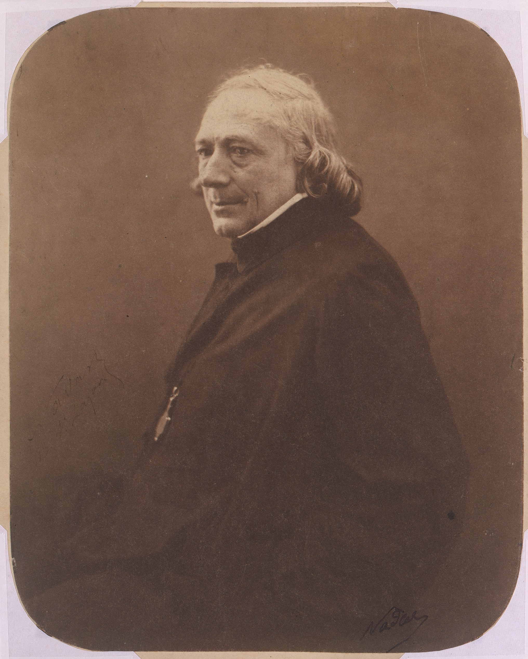 Photograph of publisher Charles Philipon